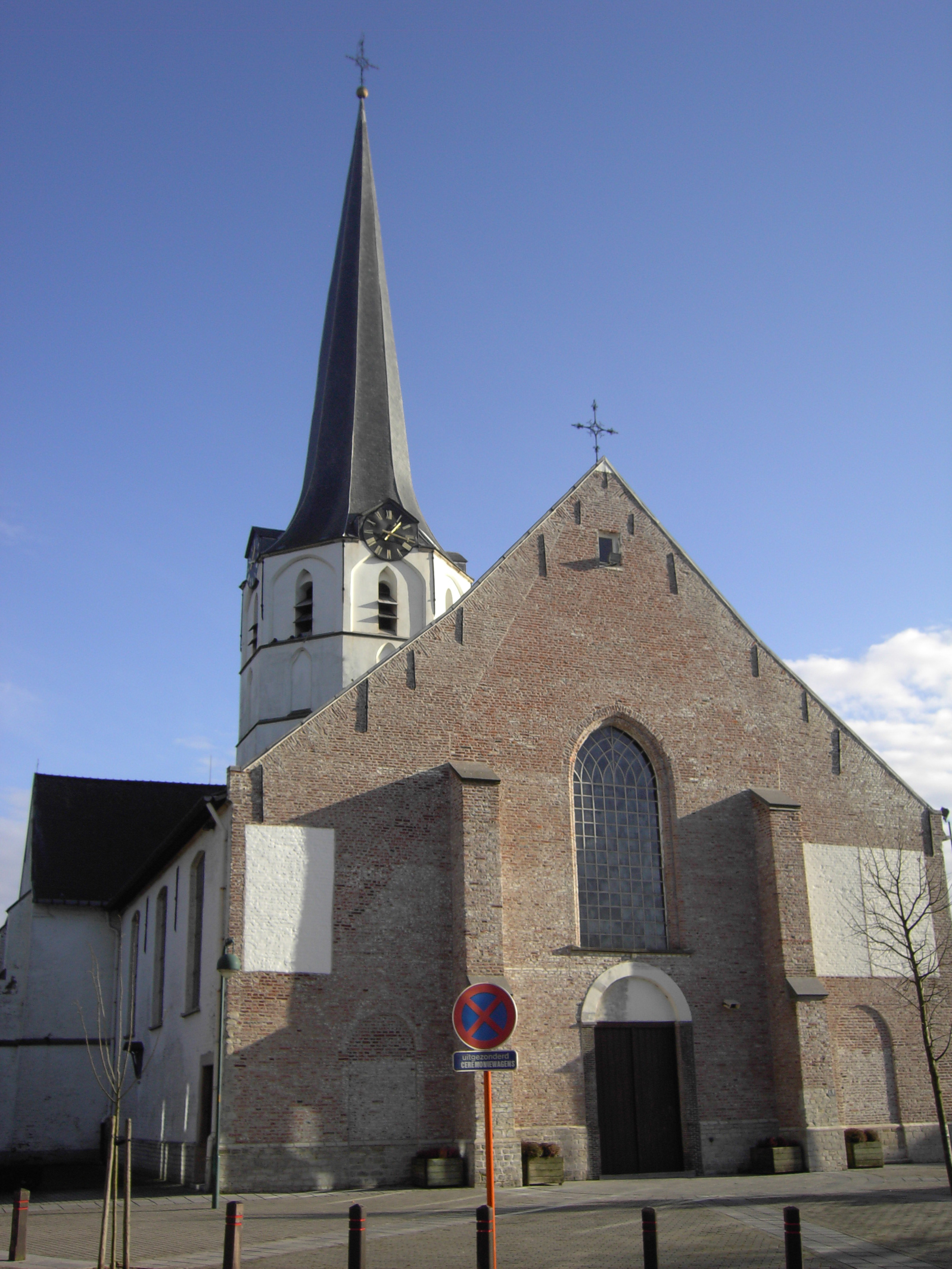 Church of Saint George and Saint Godelina in Sleidinge. Sleidinge, Evergem, East Flanders, Belgium